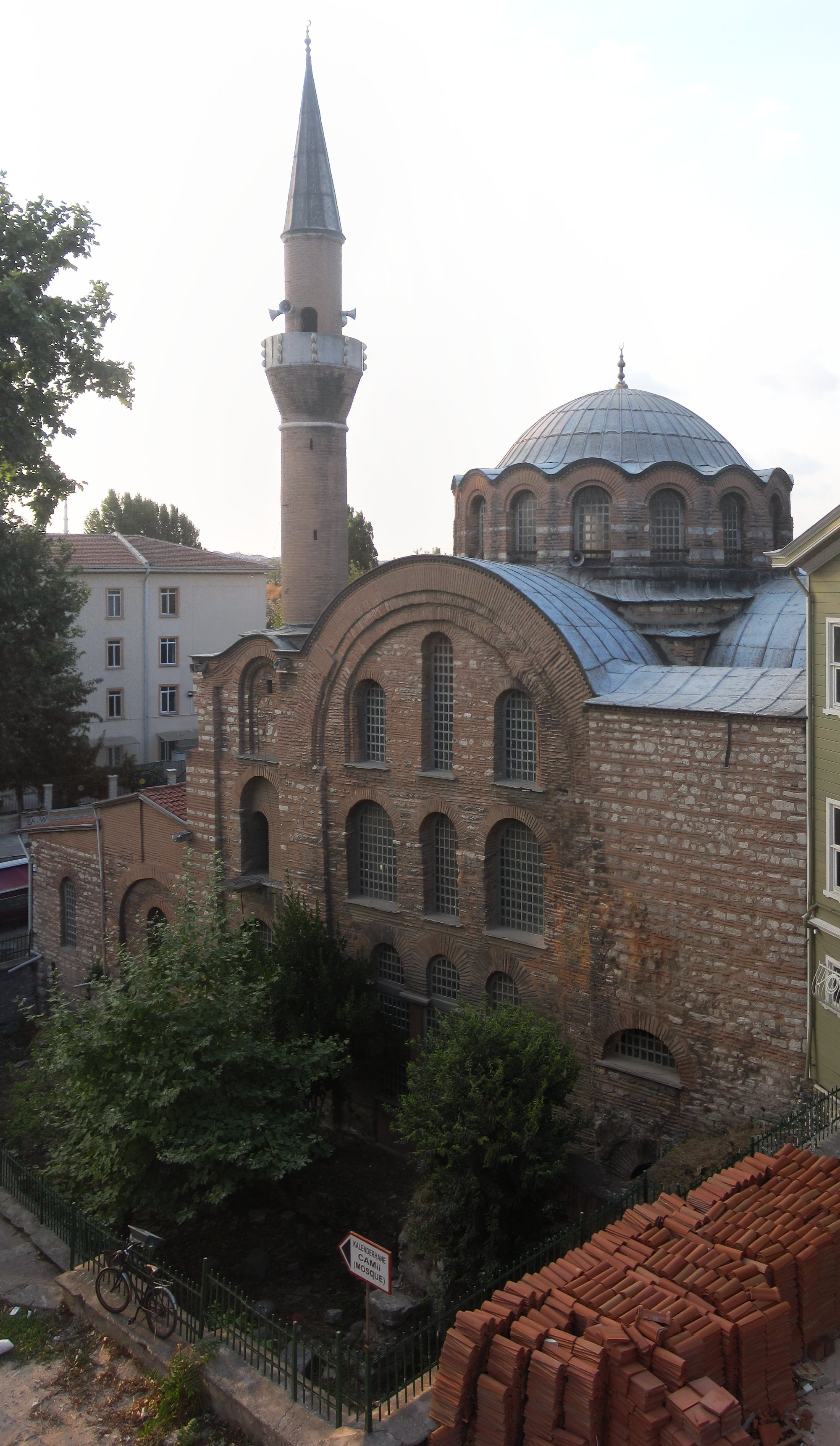 The Kalenderhane Mosque, former Church of Theotokos Kyriotissa, viewed from the Southeast. Fatih, Istanbul, Turkey.